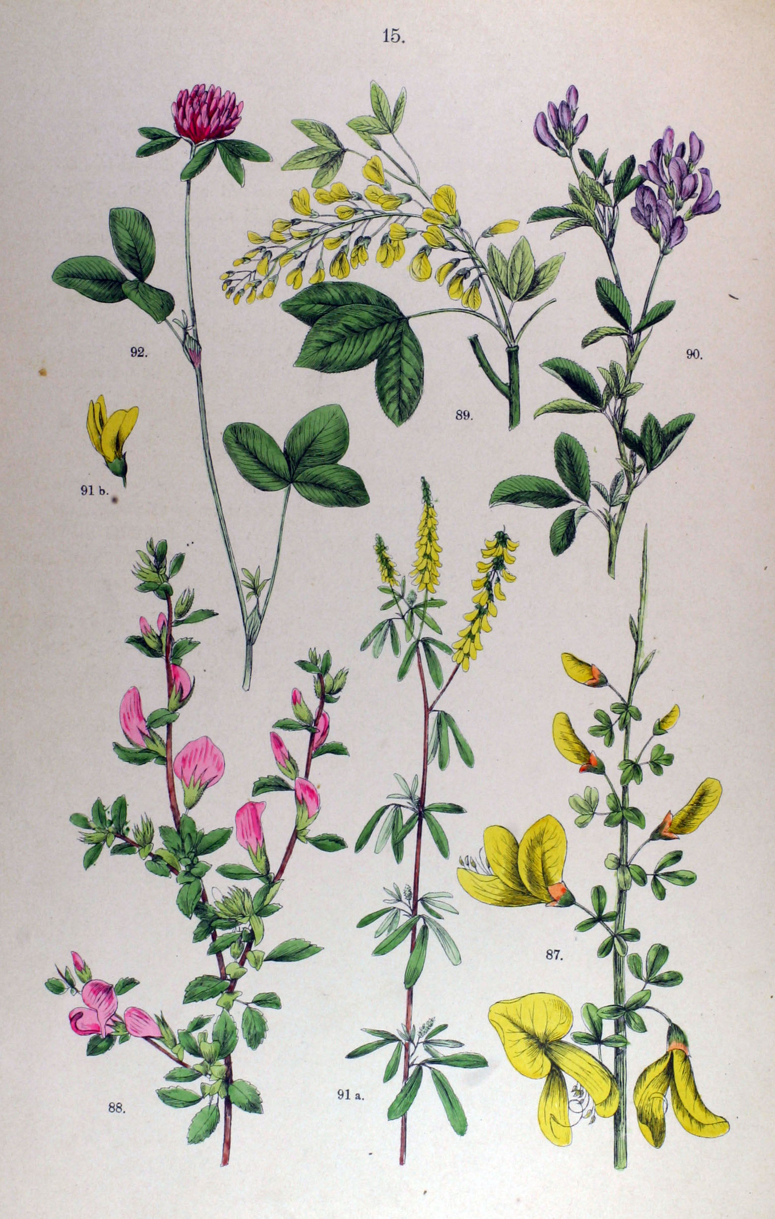 87. Cytisus scoparius 88. Ononis spinosa 89. Laburnum anagyroides 90. Medicago sativa 91. Melilotus officinalis 92. Trifolium pratense